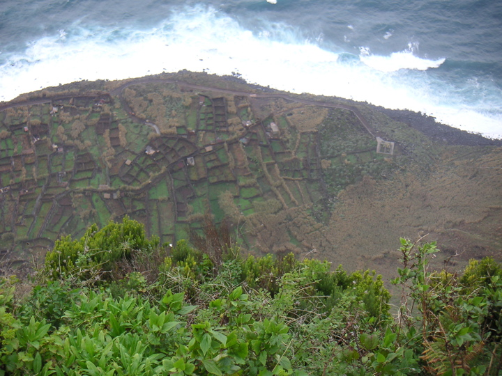 Here's the view from the top of the cable car at Achadas da Cruz looking down, nearly vertically, 500 meters below to Quebrada Nova